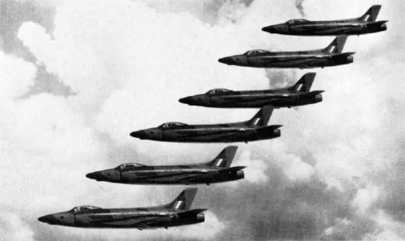 Royal Air Force Supermarine Swift FR.5 of No. 2 Squadron RAF in flight. 2 Squadron flew the Swift from 1956 to 1961 and was part of RAF Germany.